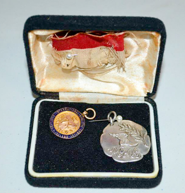 running medals for Patrick Flynn